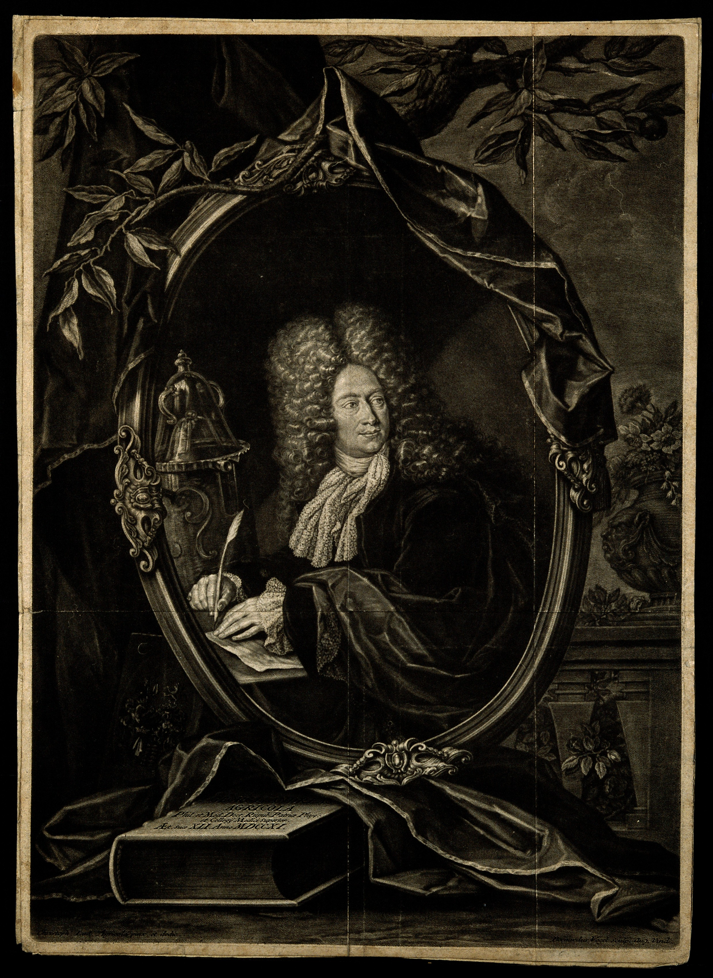 Georg Andreas Agricola. Mezzotint by B. Vogel, 1711, after C. L. Agricola. Iconographic Collections Keywords: portrait prints; mezzotints